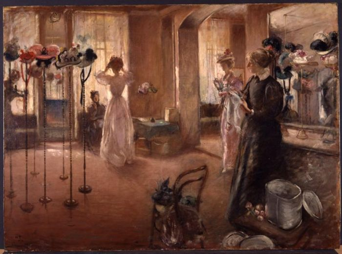 Low resolution, fair use image of The Hat Shop (1892), Oil on canvas, by Henry Tonks (April 9, 1862 – January 8, 1937). Souce - [1]